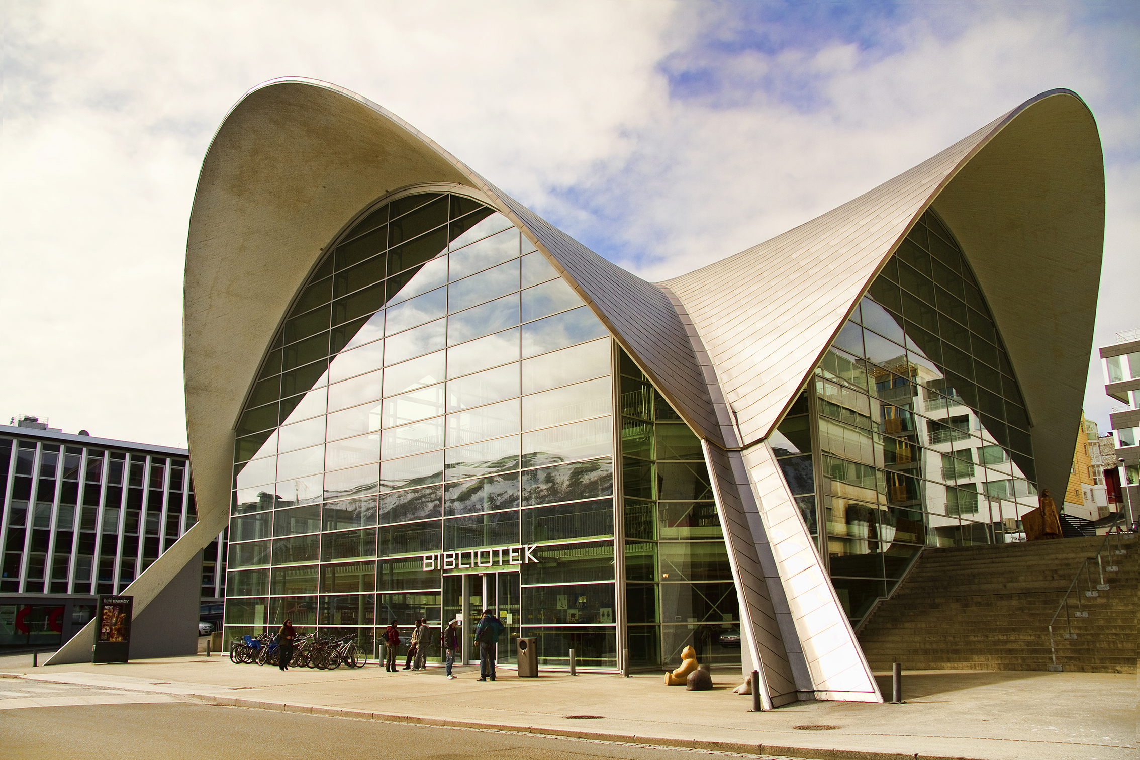 Bildet kan fritt lastes ned. Vennligst krediter fotograf. --- This image may be downloaded for commercial and non-commercial use. Please credit the photographer. Foto / Photo Credit: Mark Ledingham, Tromsø kommune.